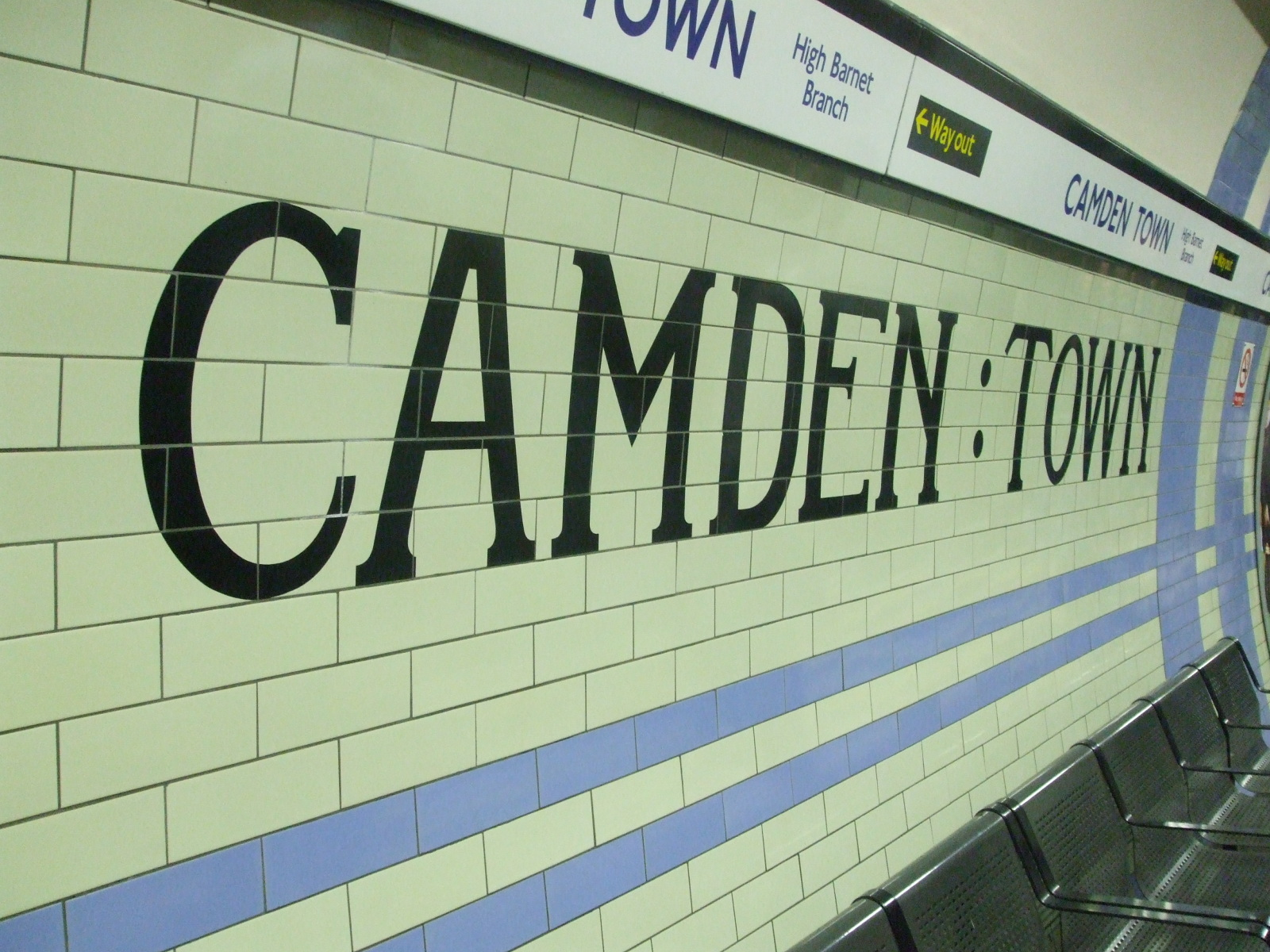 Tiling on Camden Town northbound High Barnet branch platform